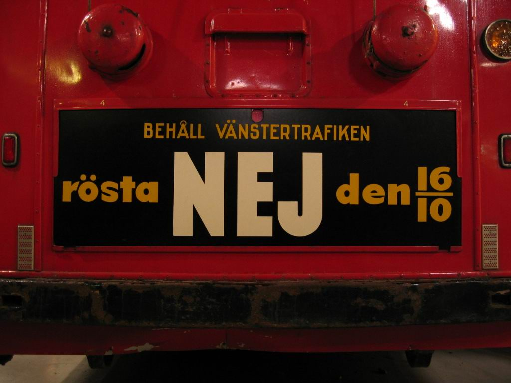 Advert on the back of one of Stockholms spårvägars (the local bus operator in Stockholm at the time) trolleybuses that says vote no at the election regarding if Sweden should drive on the right or left side. The election took place at October 16, 1955. September 3, 1967 Sweden did go from left hand to right hand driving though the result of the election showed that over 80 % wanted to keep driving on the left side of the road.